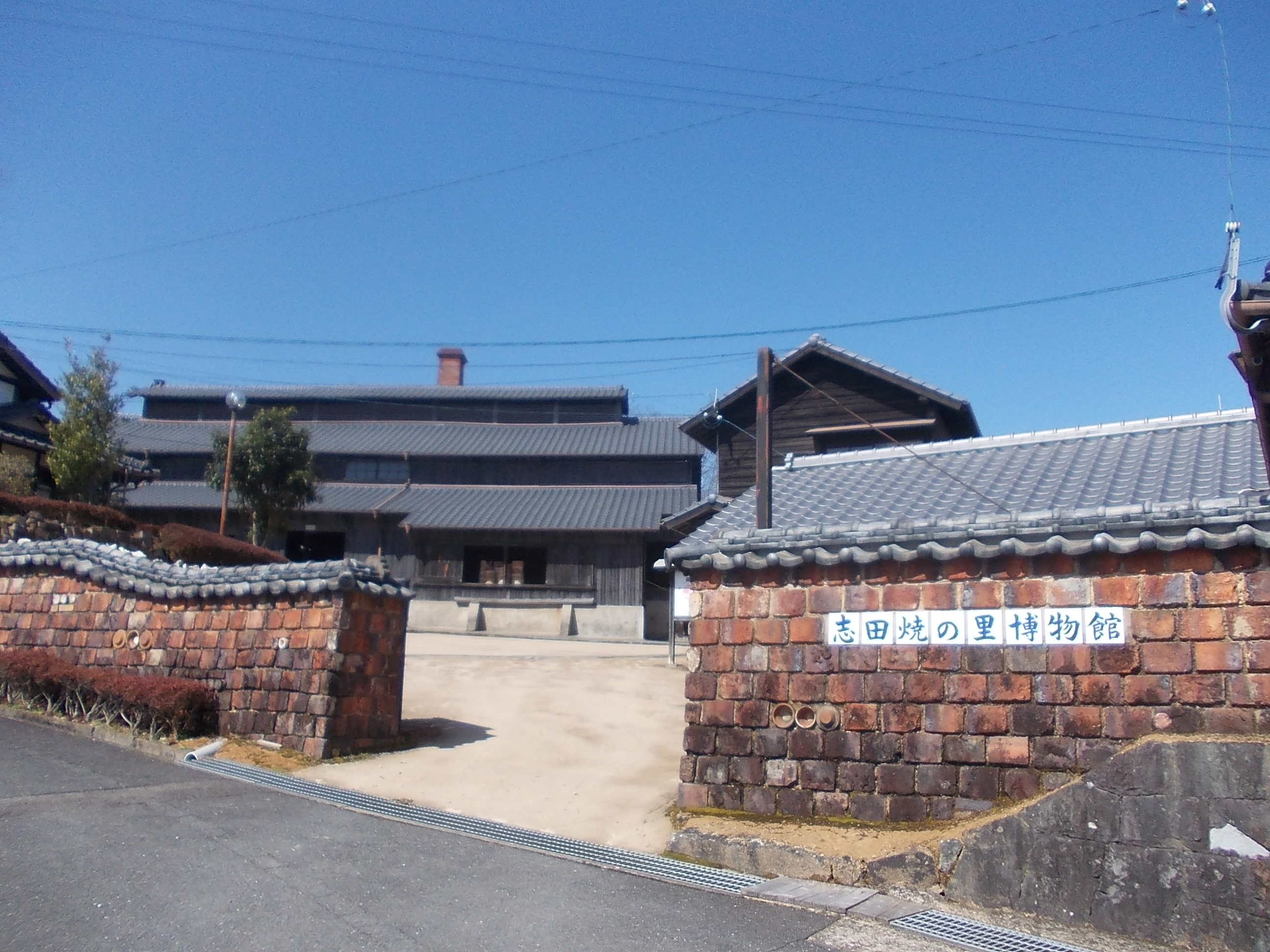 Shida-Yaki Pottery Factory Museum, Ureshino, Saga, Japan